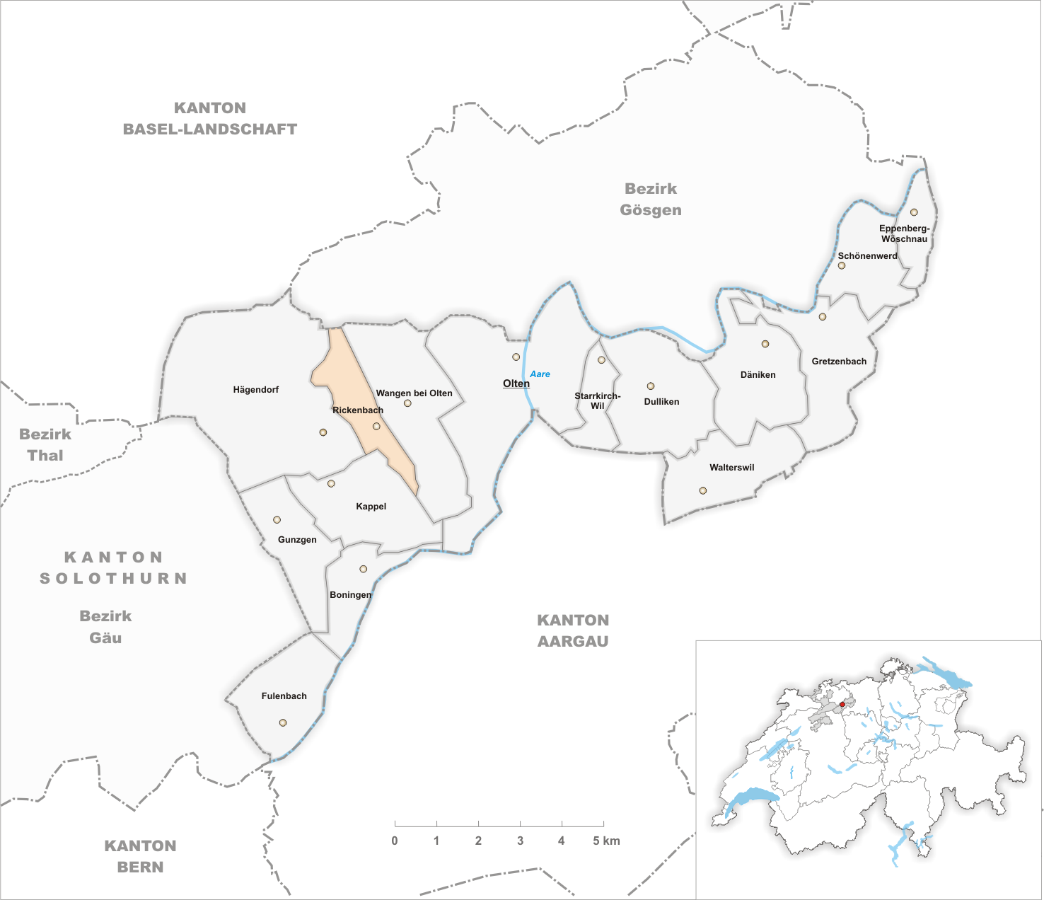 Municipality Rickenbach